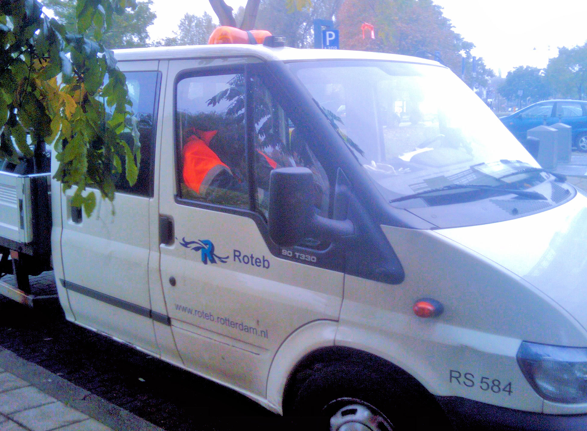 Ford Transit pickup truck of the Roteb city cleaning service in Rotterdam, The Netherlands